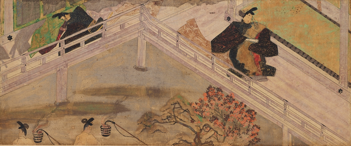 Part of the Murasaki Shikibu Nikki Emaki held at Fujita Art Museum and designated as National Treasure in the category "paintings".